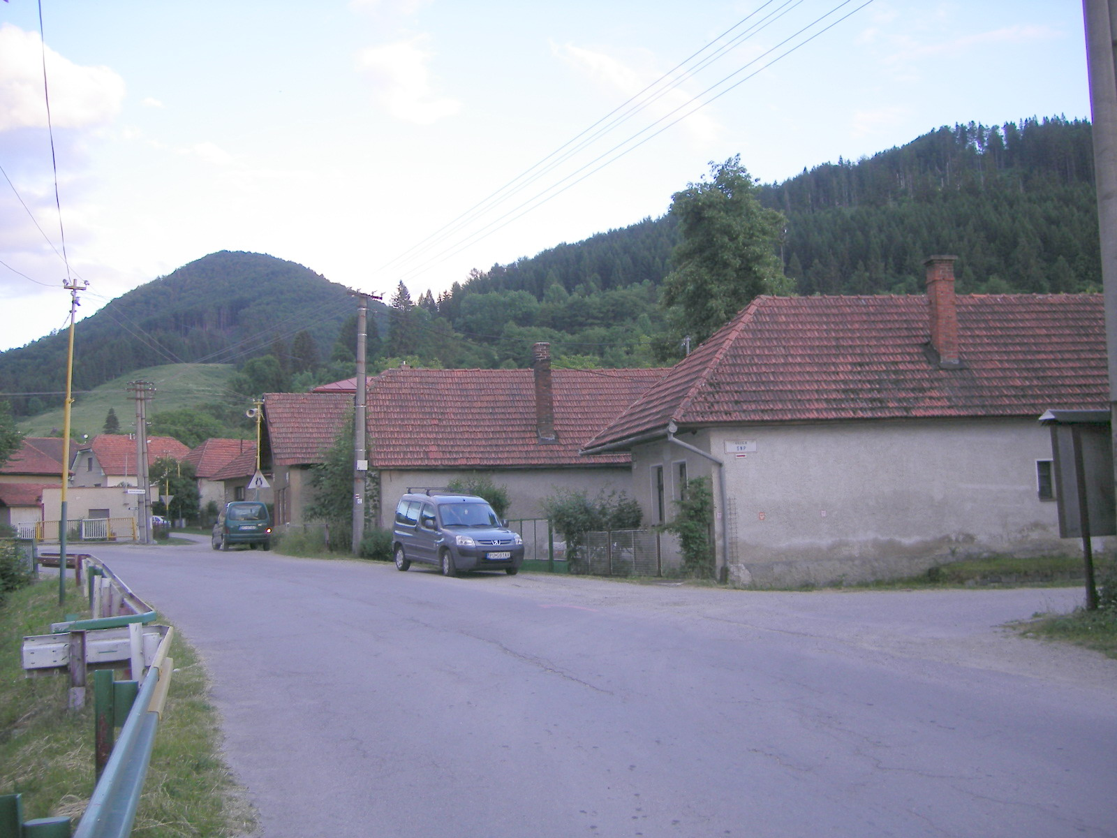 Podhradie